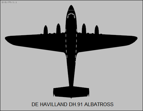 Plan-view silhouette of the de Havilland DH.91 Albatross